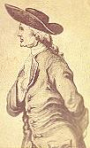 british scientist henry cavendish (1731-1810) grandson of 2nd duke of devonshire by William Alexander Slika:Henry Cavendish.jpg